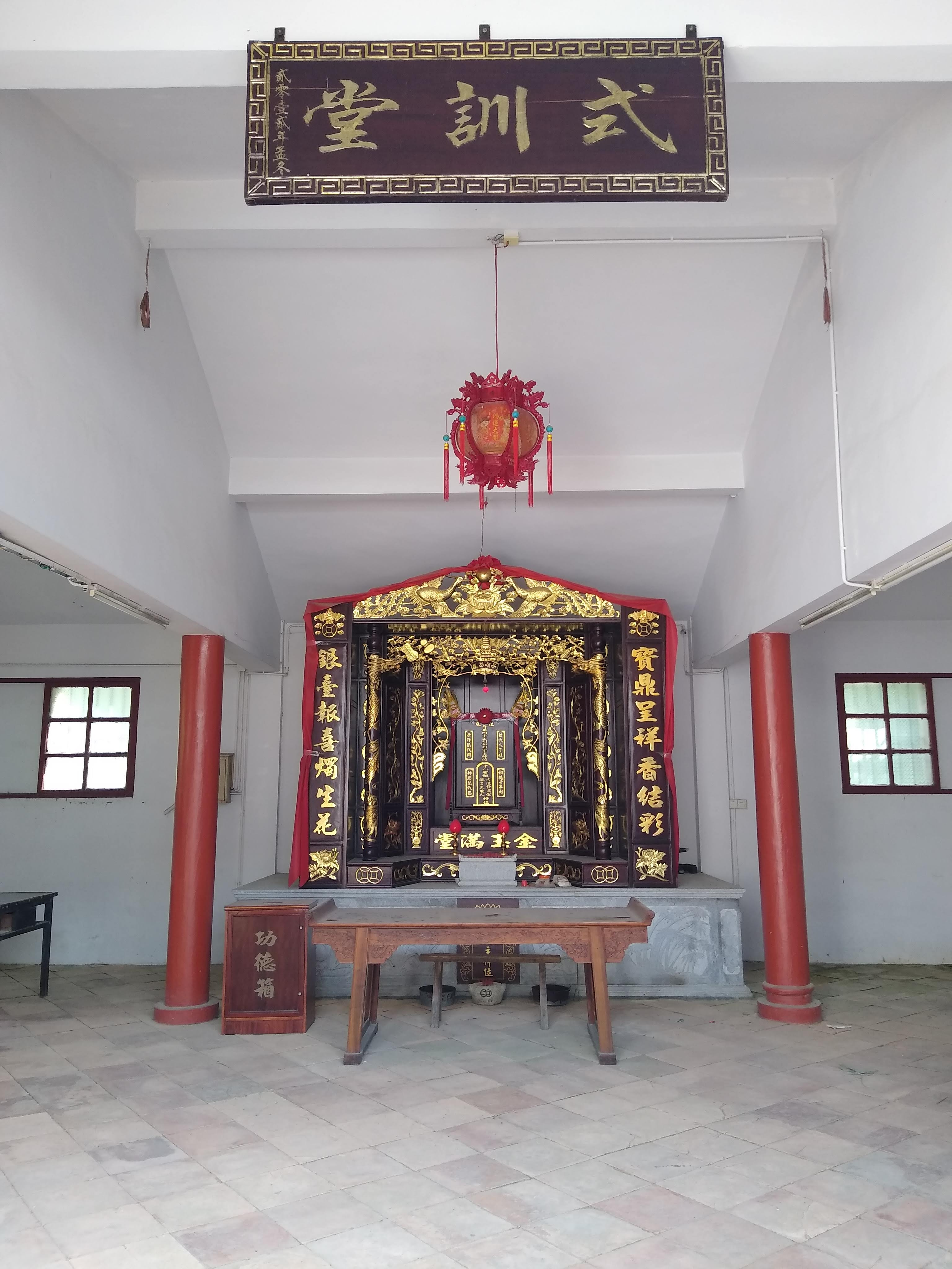 Ancestral Hall of the Huang Family (黄氏宗祠) in Majianglong (马降龙), Kaiping. Located at the southern entrance to Yong'an Village (永安村). Built by Huang Faqin (黄法钦).